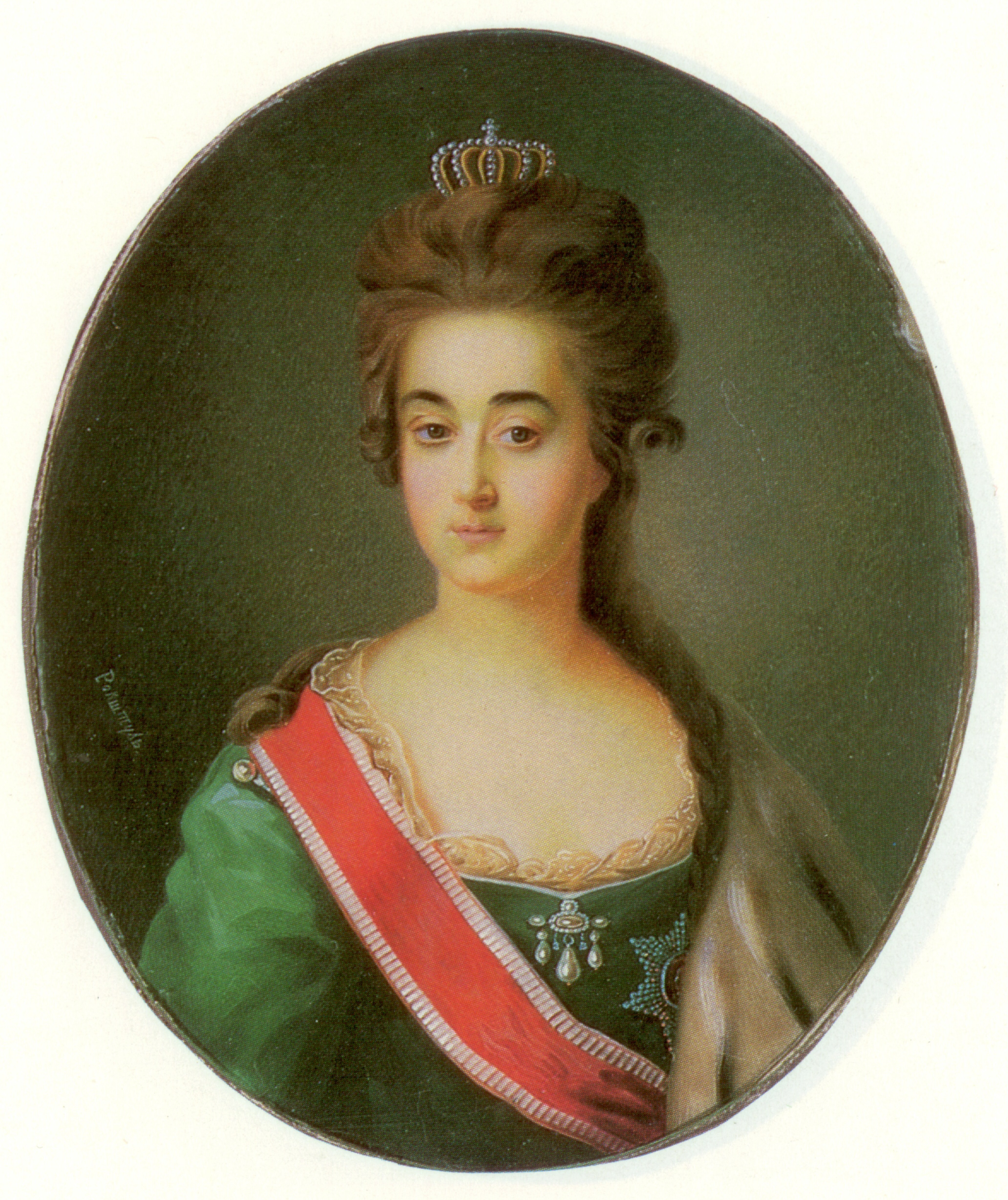 Миниатюра Евдокии Борисовны Юсуповой с портрета 1830-х годов работы крепостного художника Г.И.Новикова.